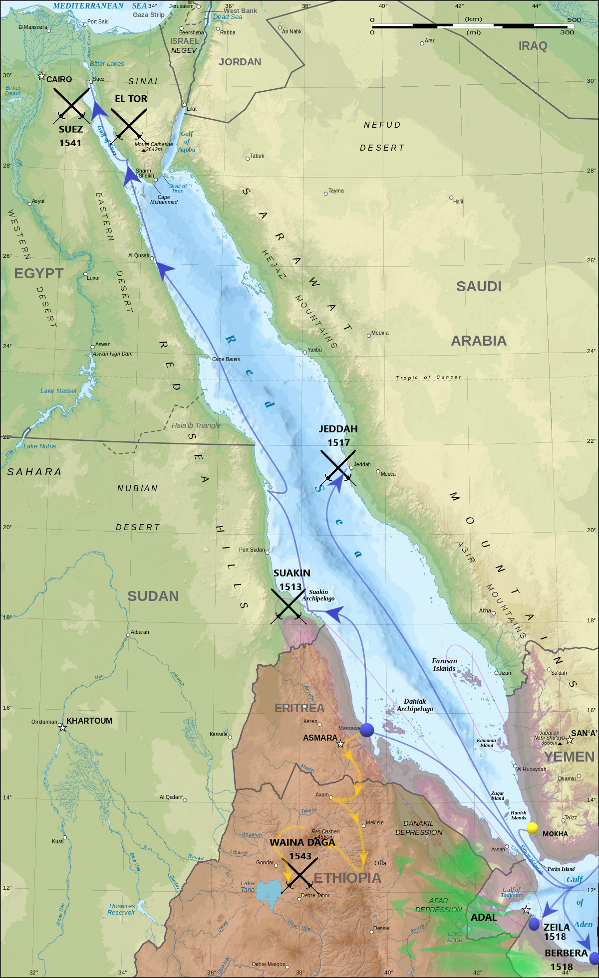 Purple _ Portuguese in the Red Sea. Main Cities e campaings against the Ottoman Empire. Red - Allied Territorie Yellow _ Factories